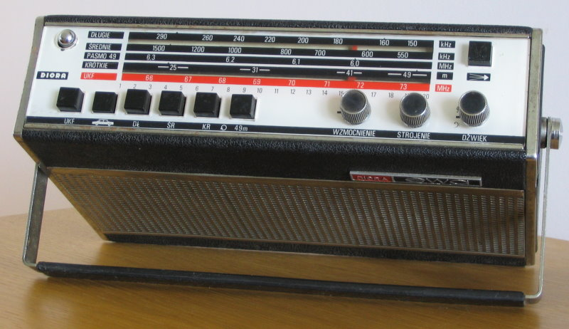 Radio "Ewa", manufacturer: "DIORA" (Poland), 1969